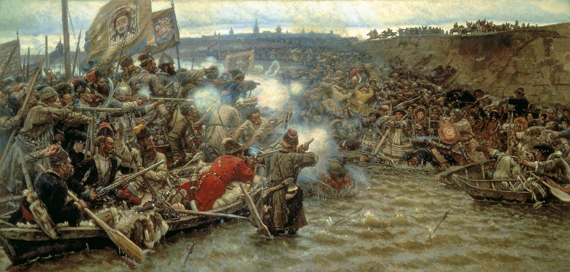 Vasiliy Surikov, "Yermak's conquest of Siberia". Canvas, oil. 5.99*2.85 m large.